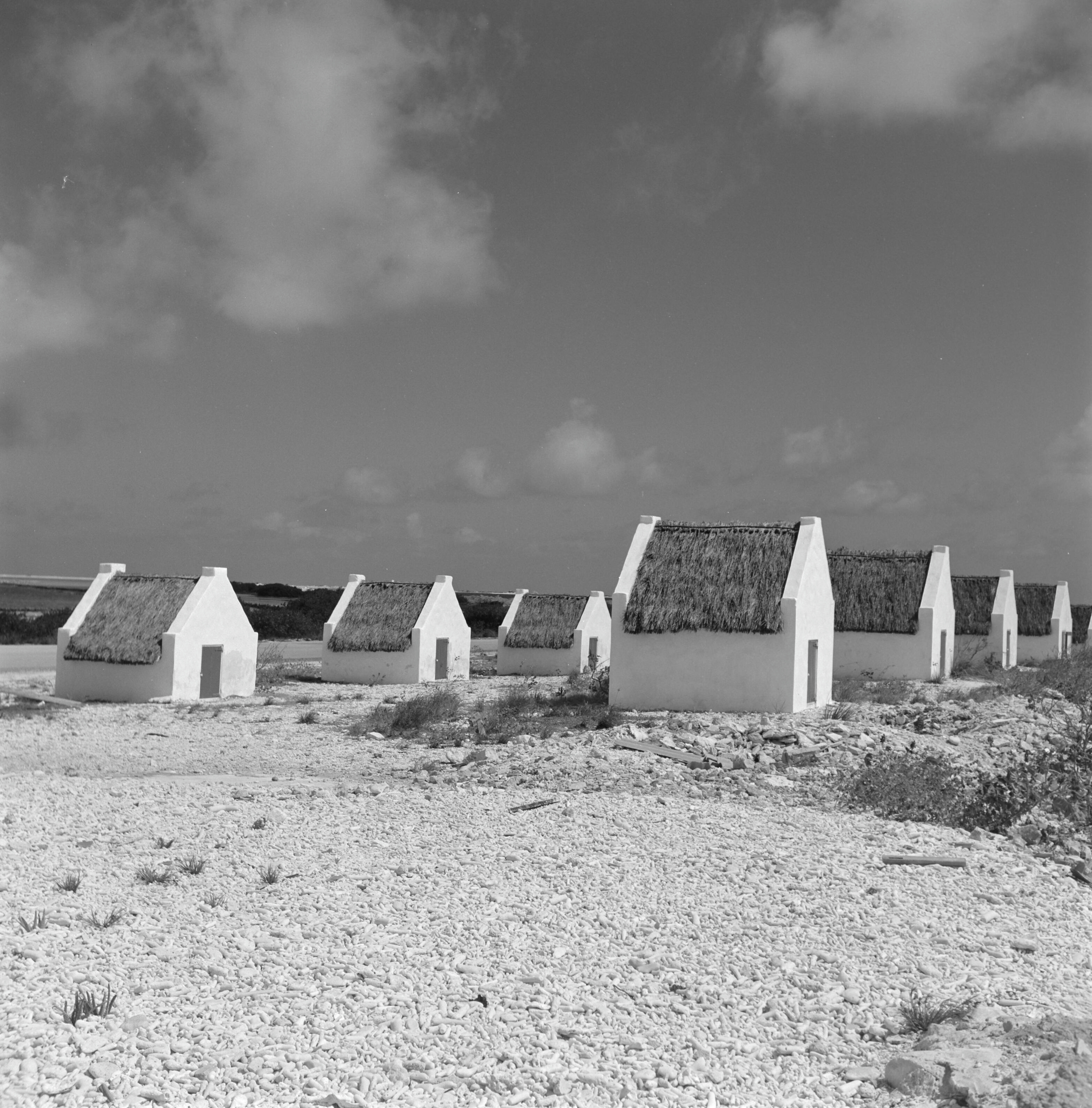 Slave houses at the salt pans, Bonaire, Netherlands Antilles